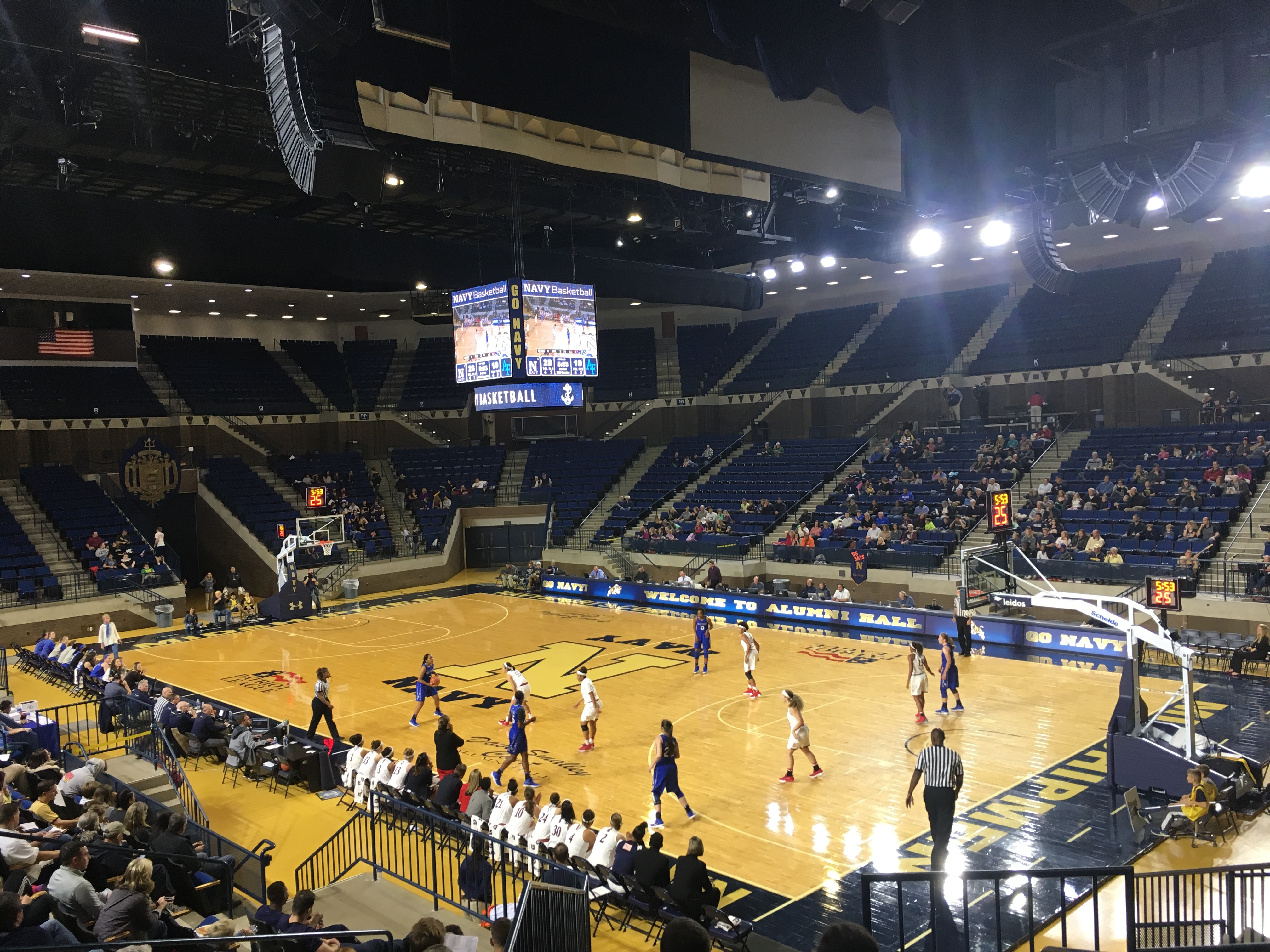 Alumni Hall in November 2017